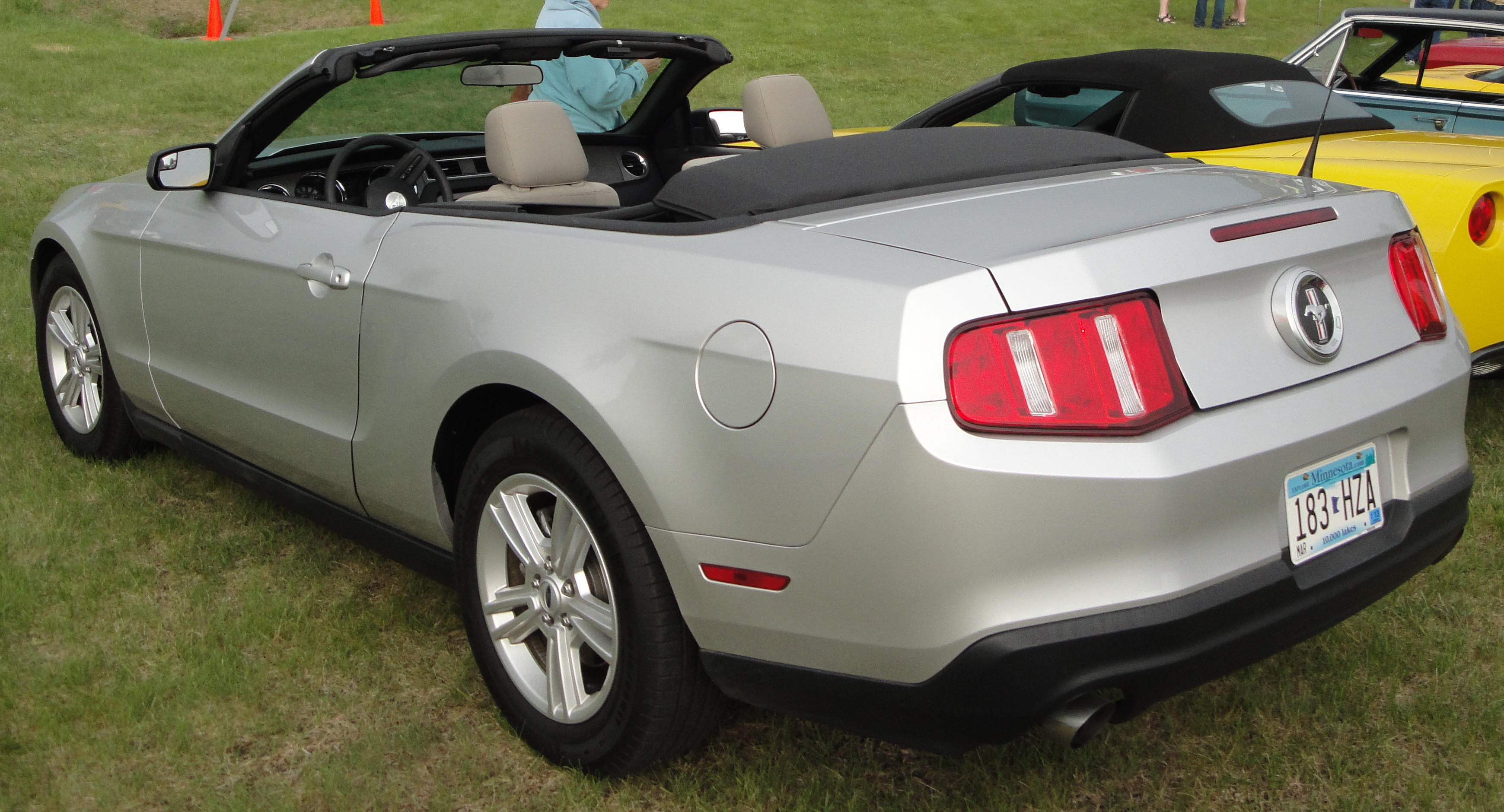 A&W Country Stop Cruise Night Traditionally there is a car cruise from A&W Country Stop in New London to the Kandi Mall in Willmar the Saturday Evening before the Willmar Car Show.